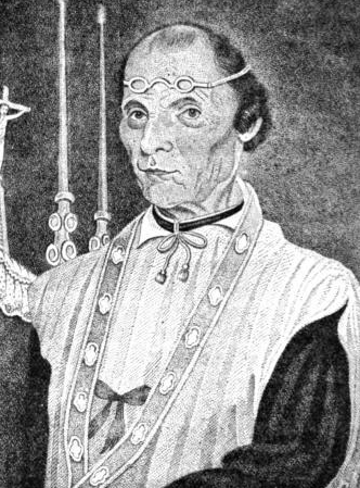 Portrait of Father Gabriel Richard